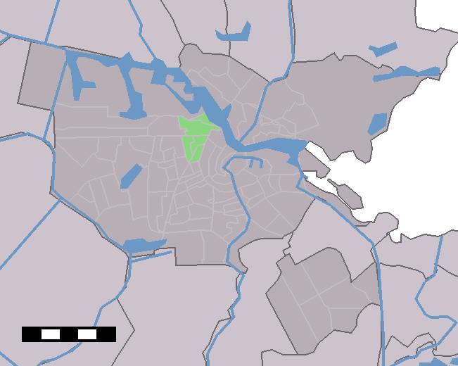 Location of neighbourhoods/districts in Amsterdam